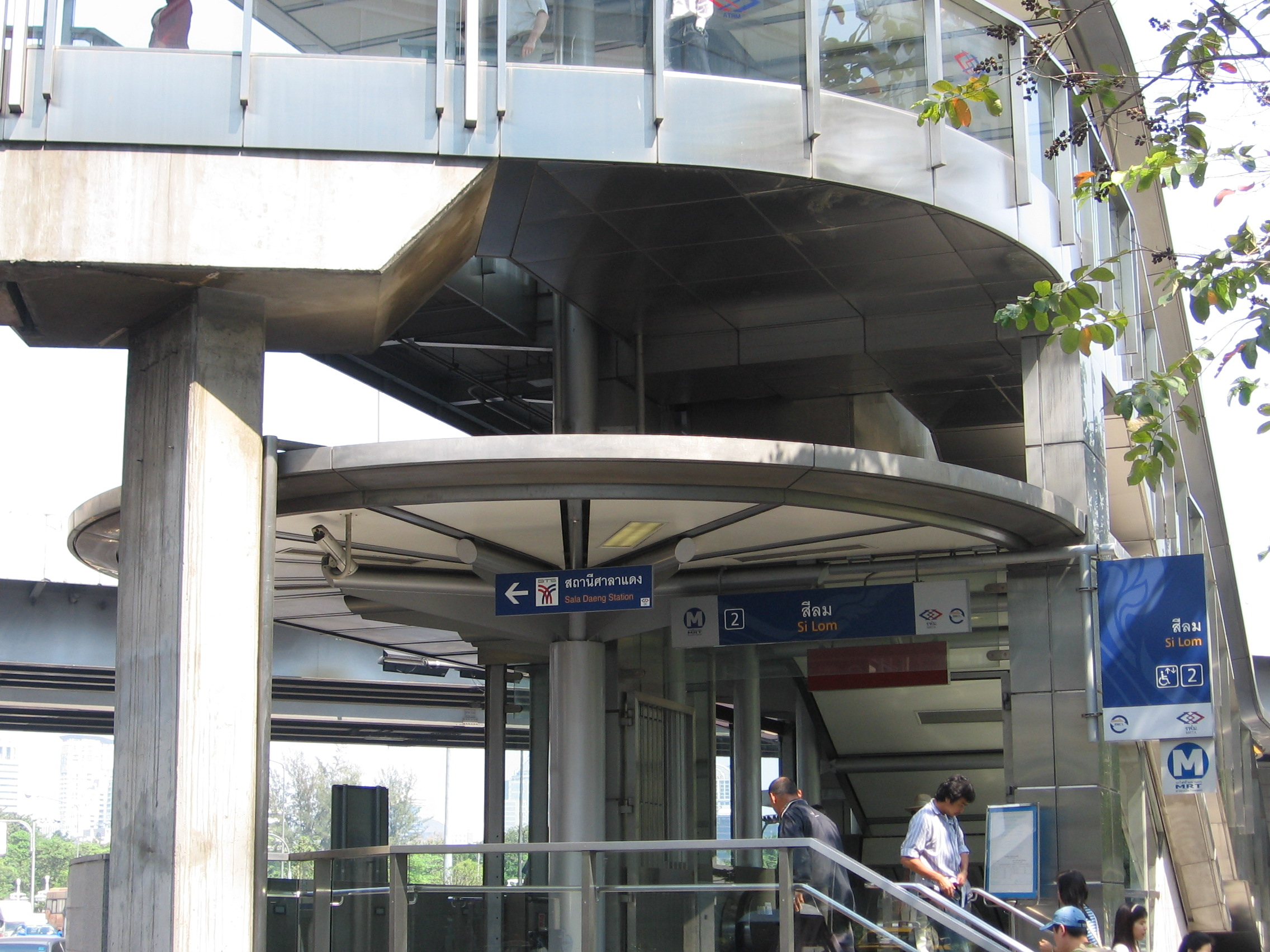 Entrance to Silom Station-Interchange with BTS(Sala Daeng Station)